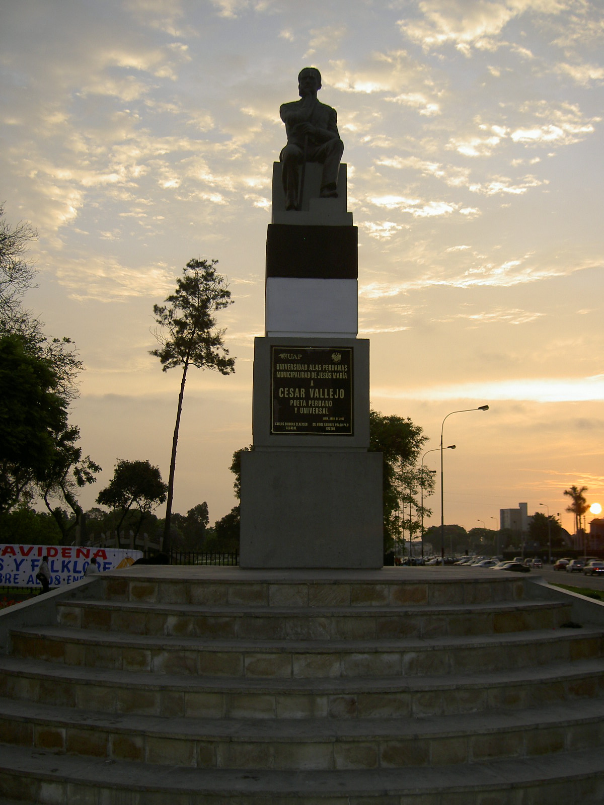 Personal photo of a monument to César Vallejo in the Jesus Maria District of Lima, Peru. Taken circa 2005. Released to Public Domain.